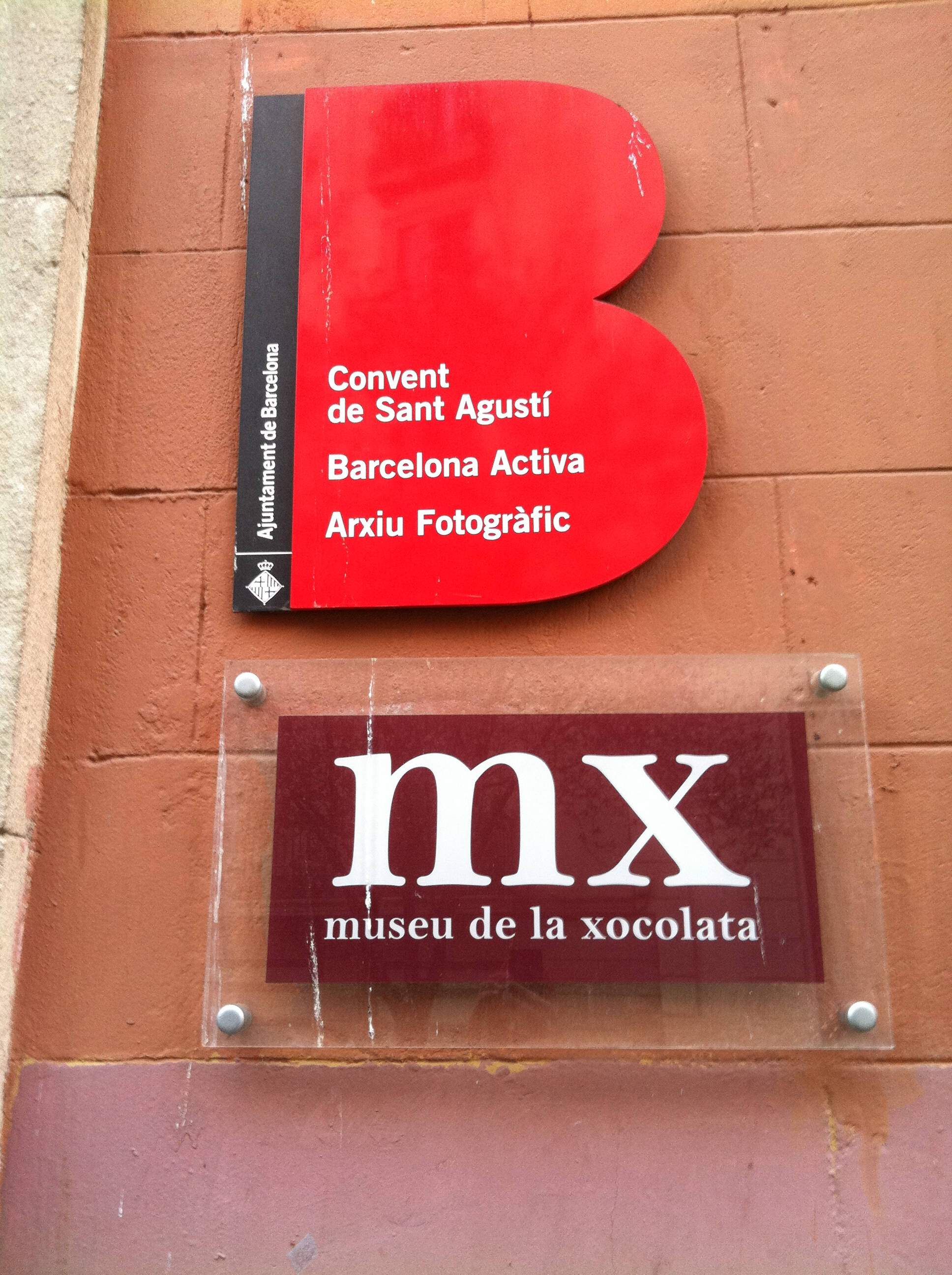 Plaque of Chocolate Museum of Barcelona